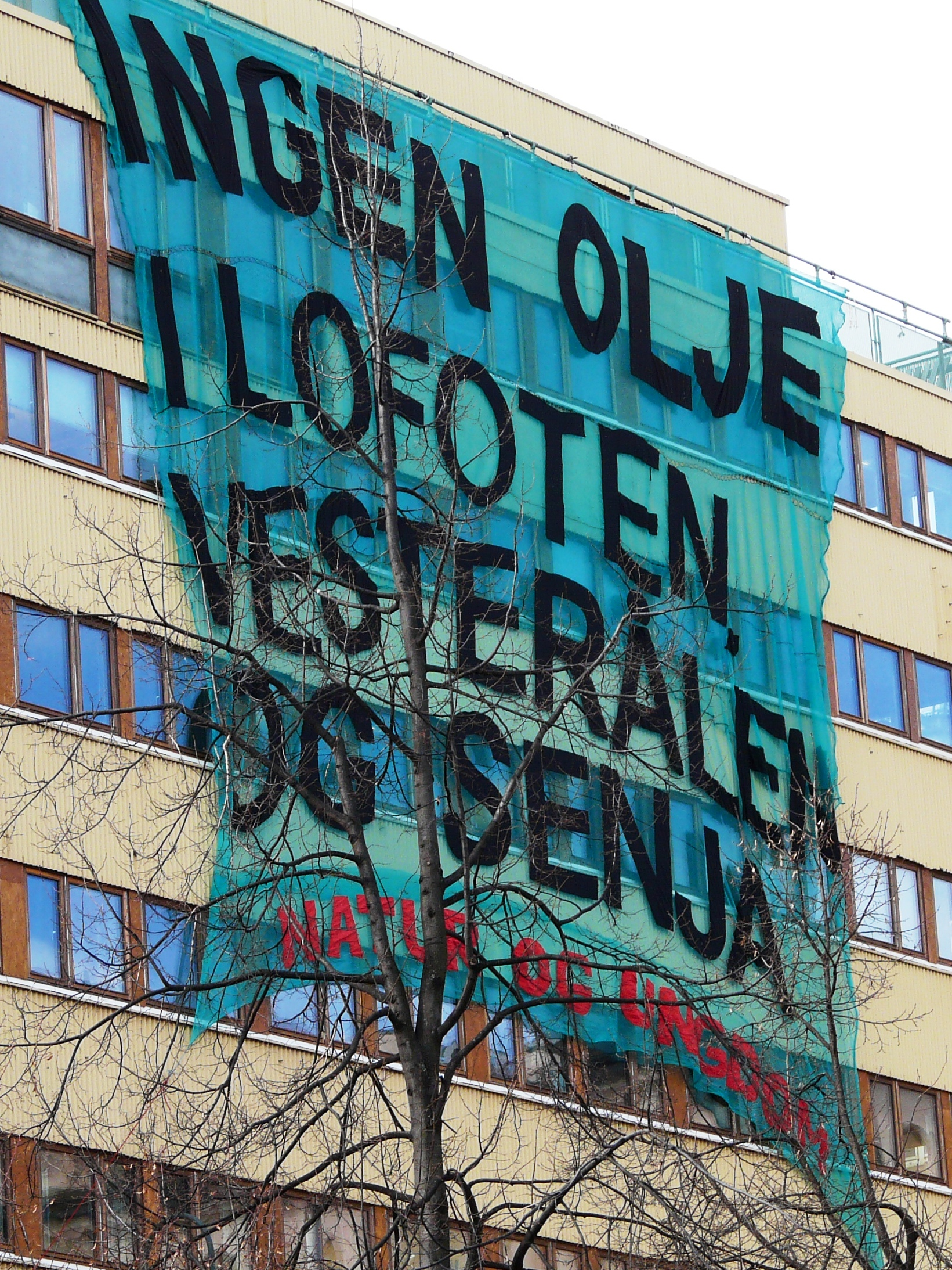 Slogan at the International Workers' Day parade in Oslo, 2013.